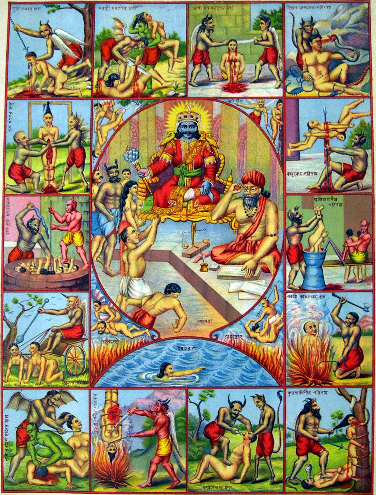 "Album of popular prints mounted on cloth pages. Colour lithograph, lettered, inscribed and numbered 11. A large central panel portrays Yama the god of death (often referred to as Dharma) seated on a throne; to the left stands a demon. To the right of Yama sits Chitragupta, assigned with keeping detailed records of every human being and upon their death deciding how they are to be reincarnated, depending on their previous actions. A woman and two men await their judgement. The rest of the print is compartmentalised into fourteen smaller panels, and each image portrays a different way demons torture sinners. These vary from being pierced by a spear, to having your entrails removed. Bengali inscriptions detail each occurrence."